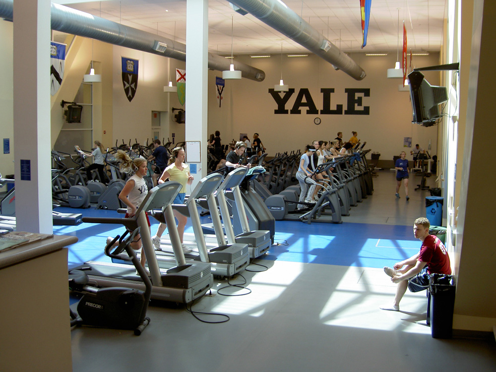 Picture of the Adrian C. "Ace" Israel Fitness at Yale University in the Payne Whitney Gym. Picture taken by Henry Trotter in 2005. The author releases it to the public domain.